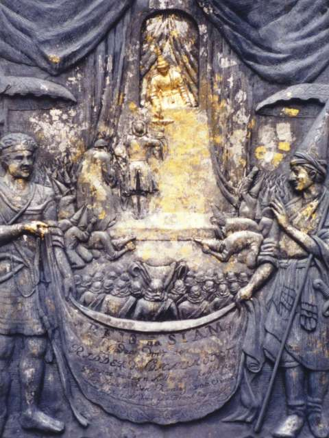 Commemorative plate in the palace ruins of Lopburi showing King Narai The Great giving an audience to french diplomats. Photo taken by User:Ahoerstemeier on December 4, 2002.